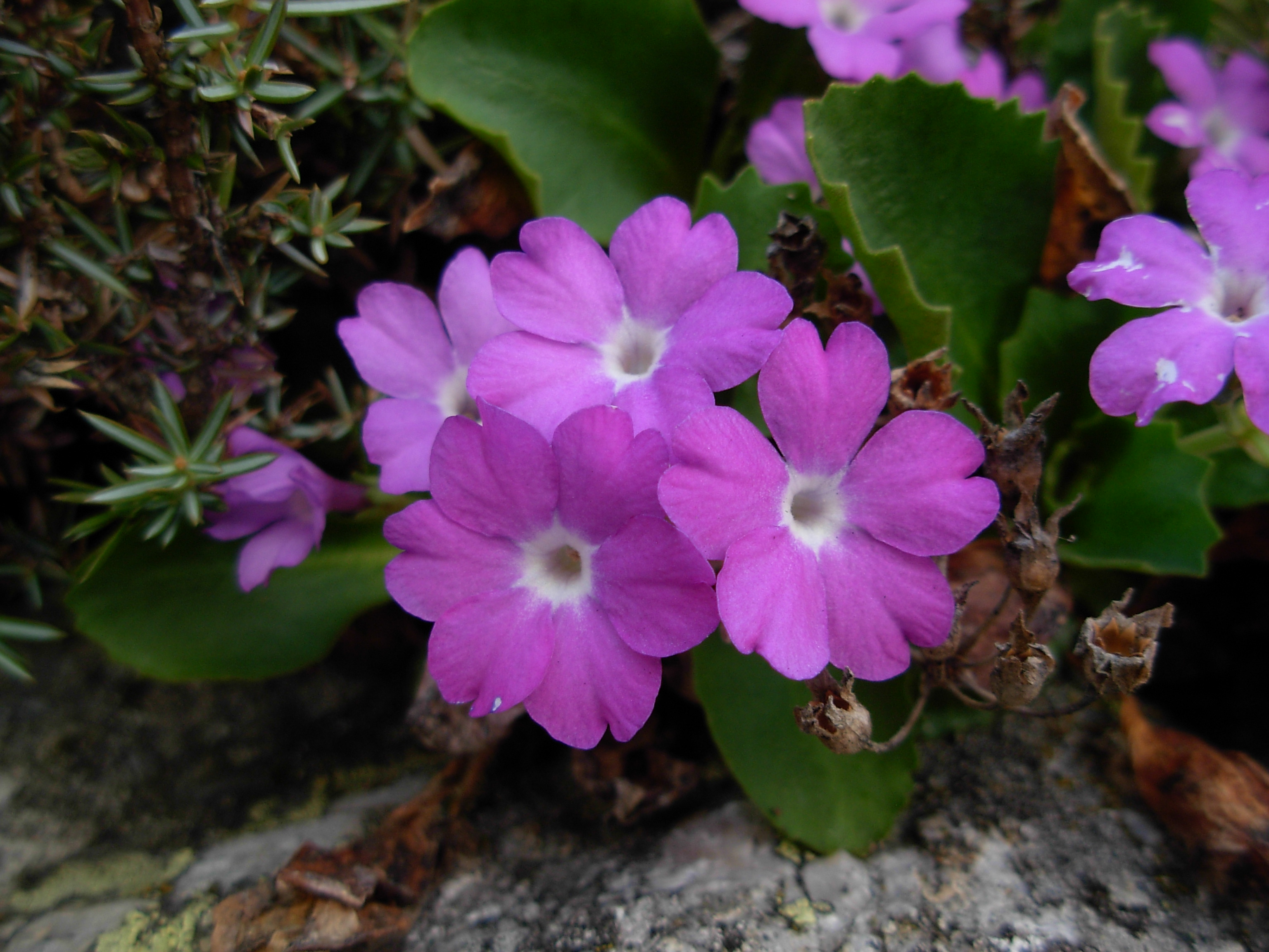 Blossom of Primula hirsuta at the Gotthard pass